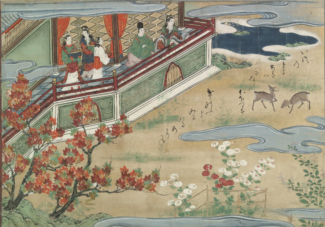 The season of autumn in the kingdom under the sea; Urashima and Otohime watching deer in the palace gardens. Japanese handscroll or emakimono of a Japanese folk tale of the fisherman Urashima Taro, having saved a turtle’s life, transported to Horai, a Turtle palace as the guest of Princess Otohime. On his return he finds that many years have passed in his home village. Opening a magic box given to him by Otohime, he ages. Written in Japan, late 16th or early 17th century. Shelfmark: MS. Jap. c.4(R)